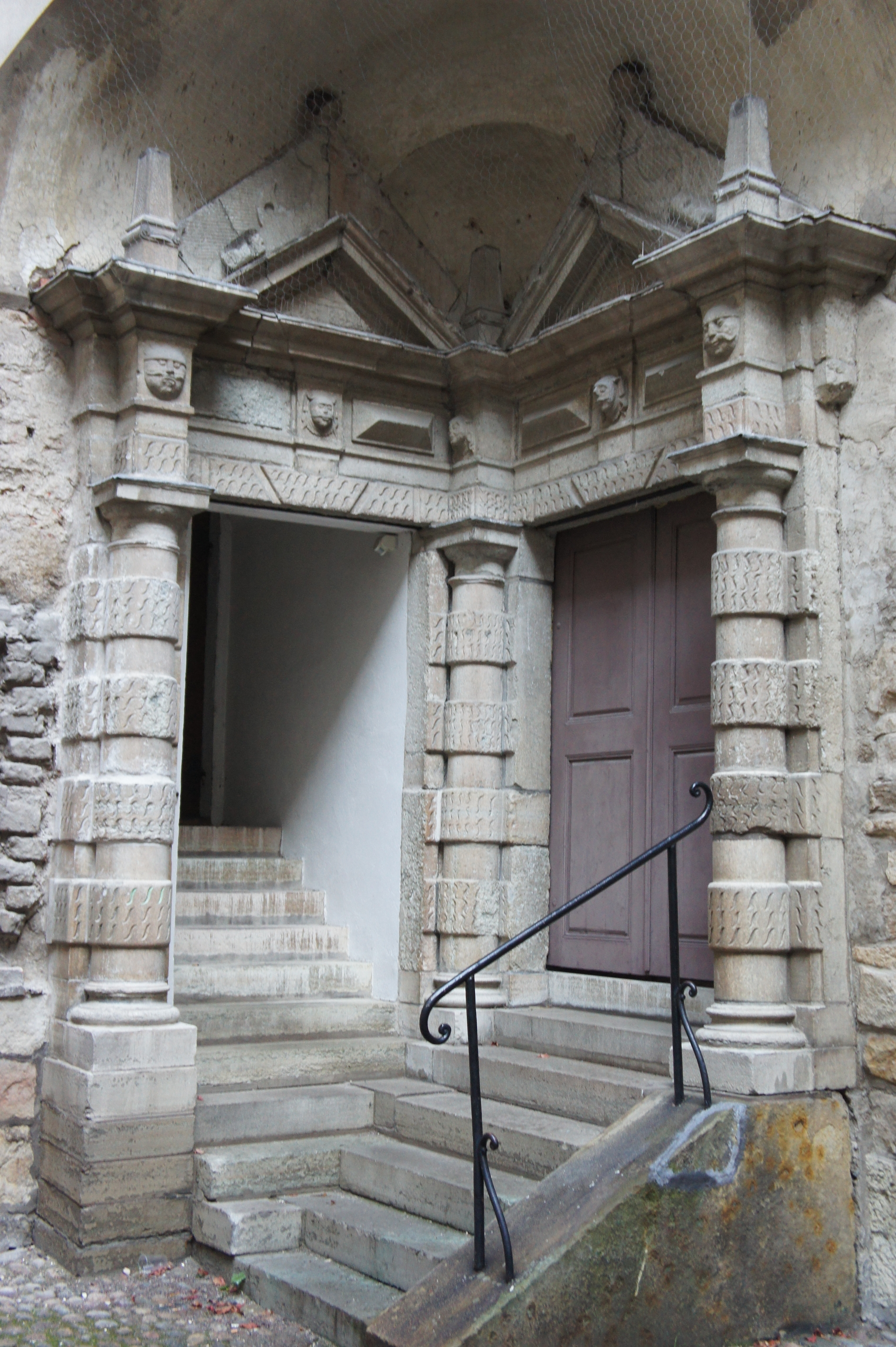 The king's entrance, Örebro castle, Sweden